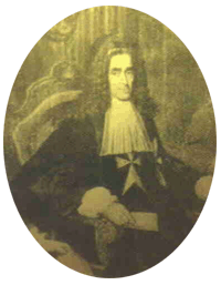 Ramon Despuig (1670-1741)